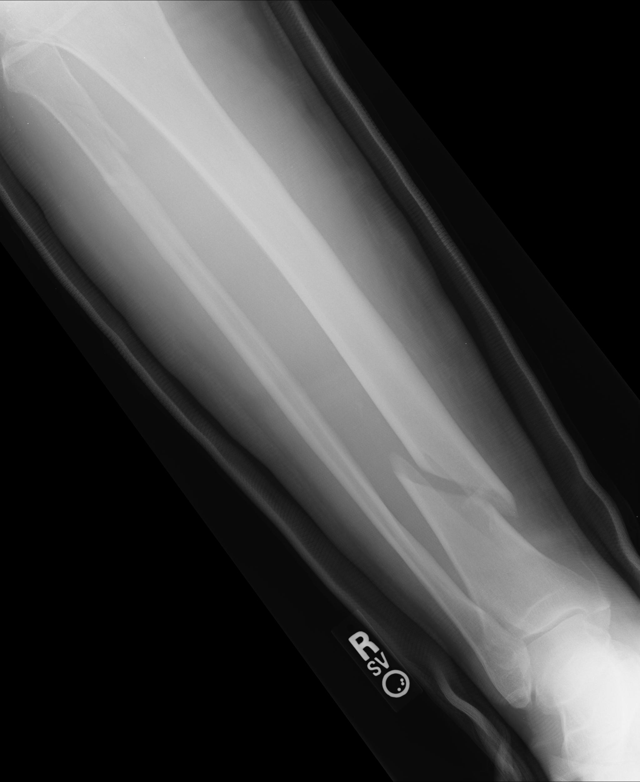 X-ray of fractured tibia and fibula, front view, before repairs. The temporary splint is visible as a thin halo.